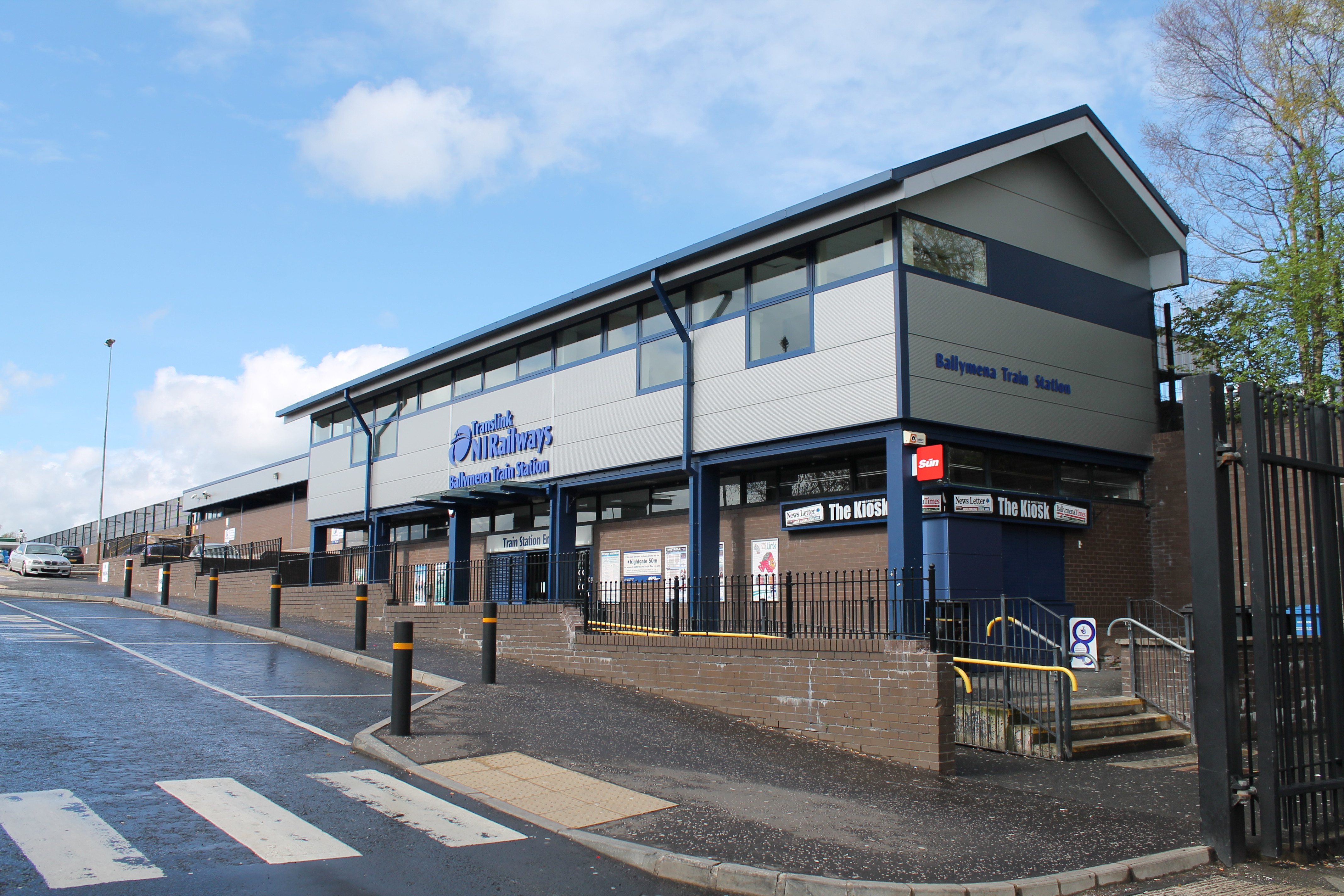 Ballymena railway station. Apr 2015.